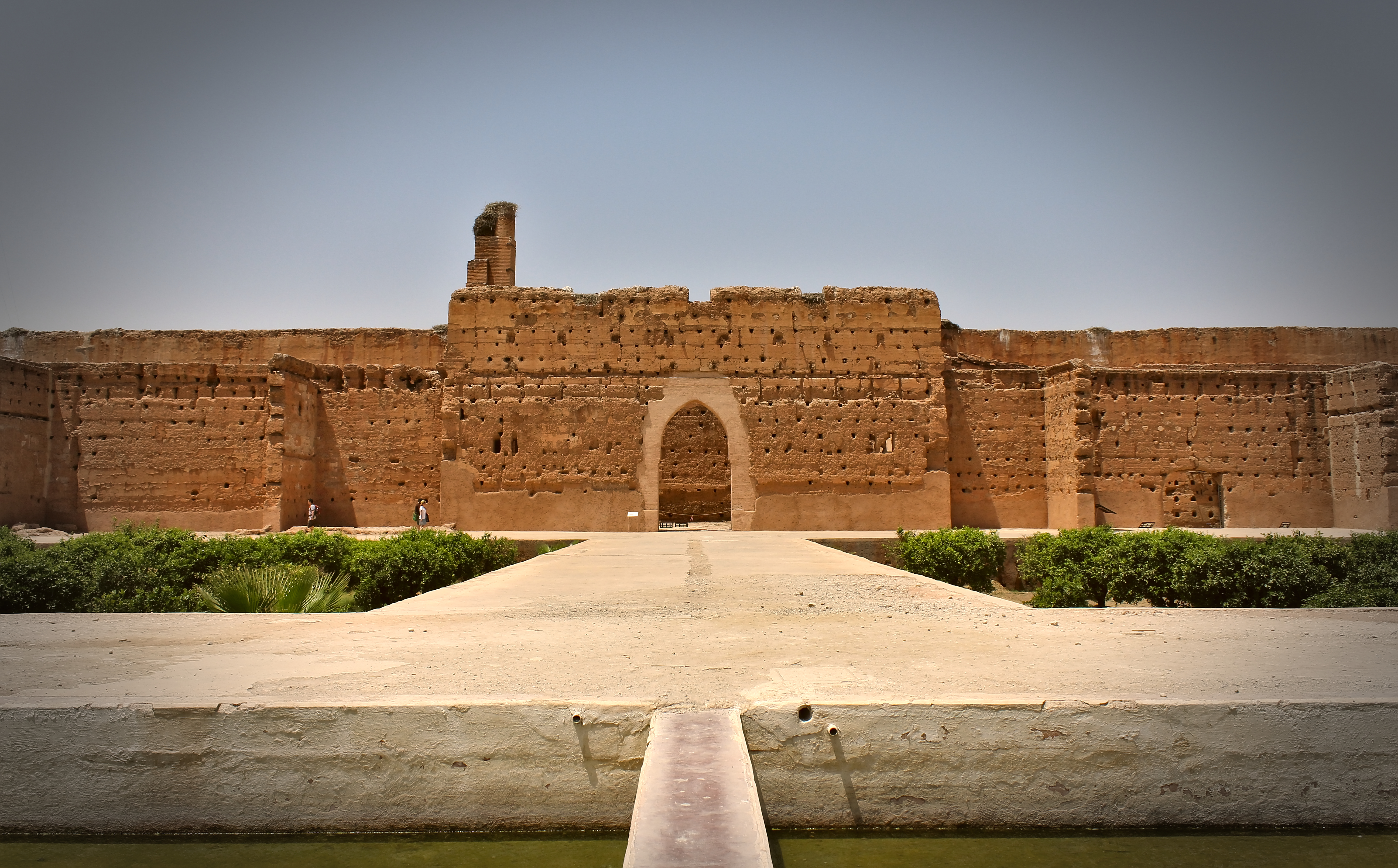 Interior north facade of the El Badi Palace.